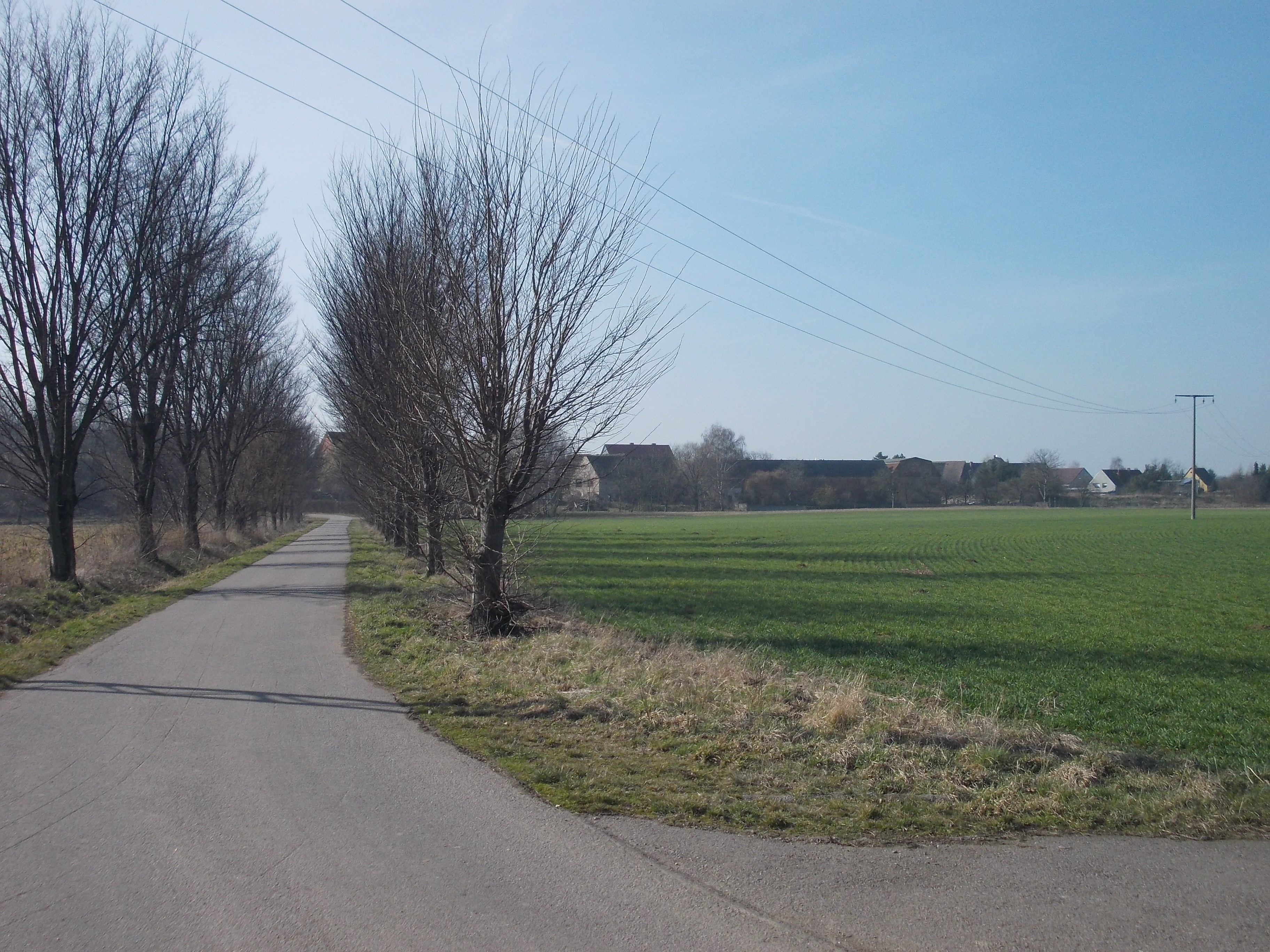 Elbe Cycle Track near Döbeltitz (Belgern-Schildau, Nordsachsen district, Saxony)